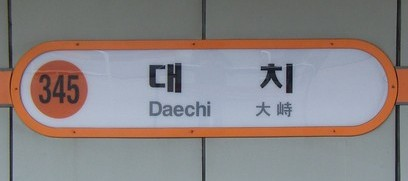 Daechi Station